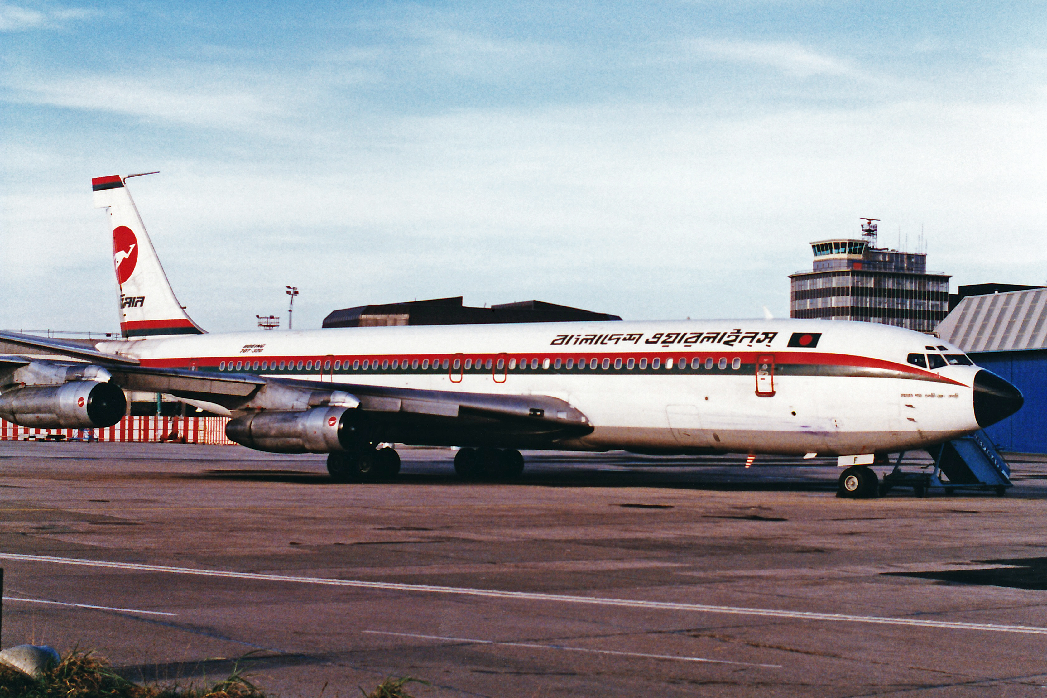 S2-ACF B707-351C Biman Bangladesh Airlines Cargo at Manchester Airport